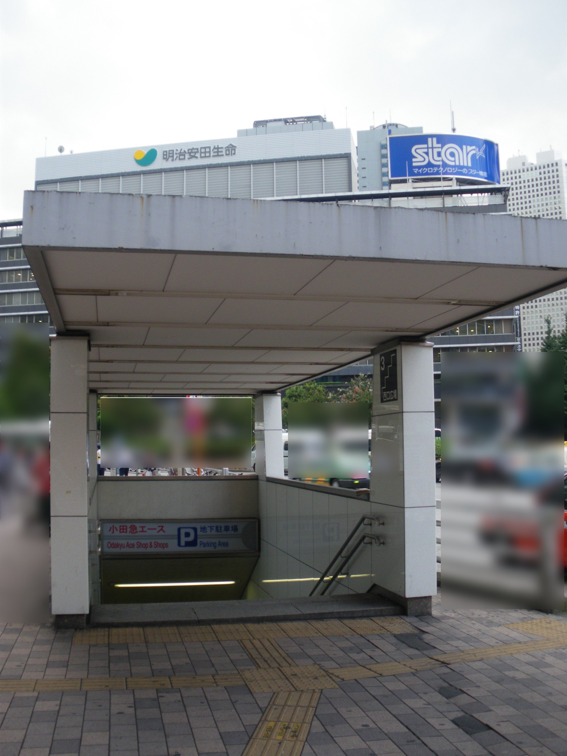 A photo of an entrance of Odakyu Ace (an underground mall at Shinjuku Sta.), Nishi-Shinjuku, Shinjuku-ku, Tokyo, Japan.